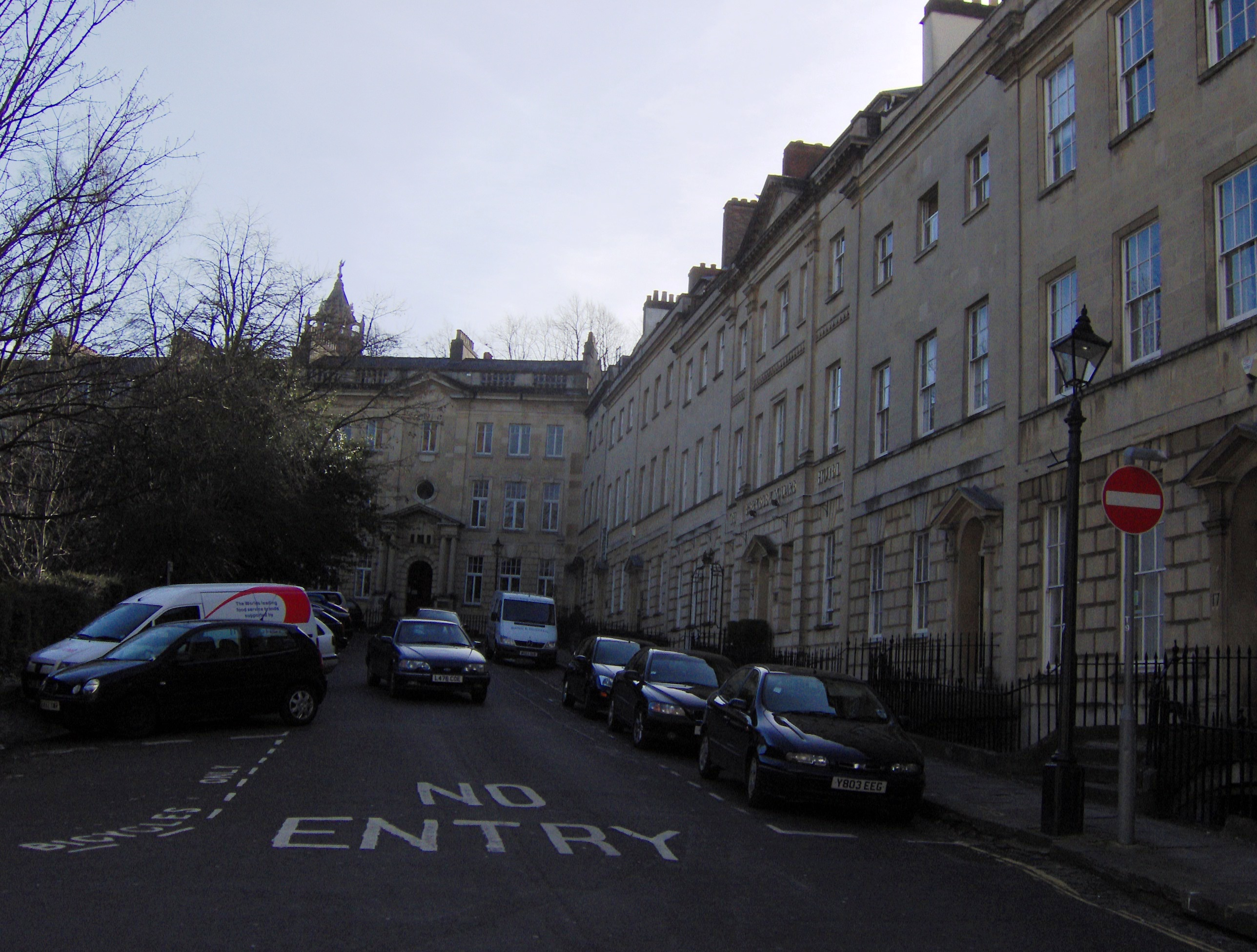 West side and SW corner of Berkeley Square, Bristol.